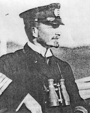 Commander at the airship base in Tønder